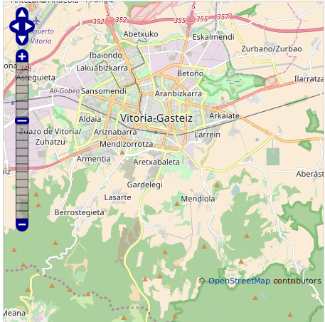 Vitoria-Gasteiz (OSM screenshot)